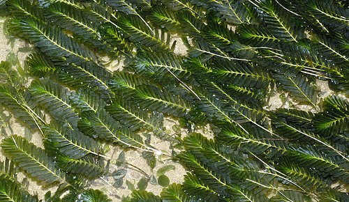 Sometimes, the Fern seagrasses on Changi can cover large areas in a lovely green feathery carpet.